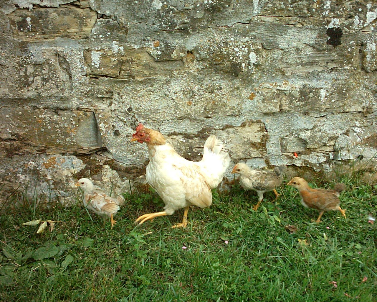 Mother hen with chicks